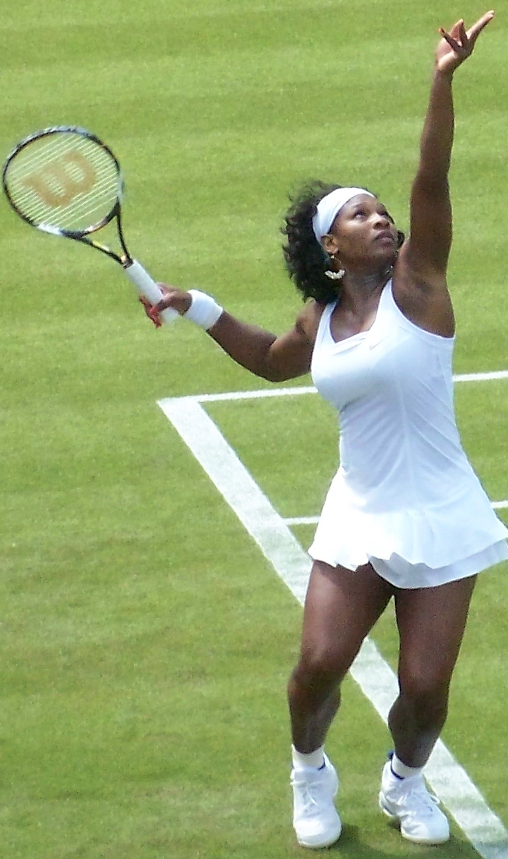 Serena Williams serves on Court 1 during her first round match against Kaia Kanepi of Estonia at Wimbledon 2008